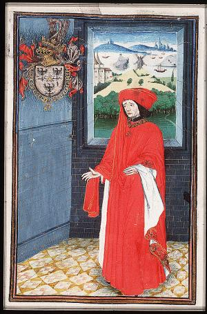 Statuts, Ordonnances et Armorial de l'Ordre de la Toison d'Or (Statutes, Ordonnances and armorial of the Order of the Golden Fleece) Place of origin, date: Southern Netherlands; 1473. Added sections: Southern Netherlands; 1478 or shortly after and 1491 or shortly after Material: Vellum, ff. 86, 249x187 (167x106) mm, 23 lines, littera cursiva (lettre bourguignonne). French. Binding: 18th-century brown leather Decoration: 1 full-page miniature (170x115 mm) with border decoration; 92 miniatures (185/155x120/100 mm); 1 historiated initial (80x90 mm) with border decoration; decorated initials with border decoration (ff., Added section: miniatures ; 4 drawings for miniatures (not finished) Provenance: Presented in 1473 by Gilles Gobet, King of Arms of the Order of the Golden Fleece, to Charles the Bold, Duke of Burgundy and the other Knights during the Chapter of the Order held at Valenciennes; Treasure of the Golden Fleece, Brussls; taken away by the Treasurer C.-F. Humyn (d. 1735) or his daughter C.Ch. de Corte; by legacy to her daughter M.-L. de Corte, wife of Ph.-E. de Poederlé; purchased in 1781 at the Poederlé sale by G.-J- Gérard of Brussels; acquired in 1832 as part of the Gérard collection (no. A 27)